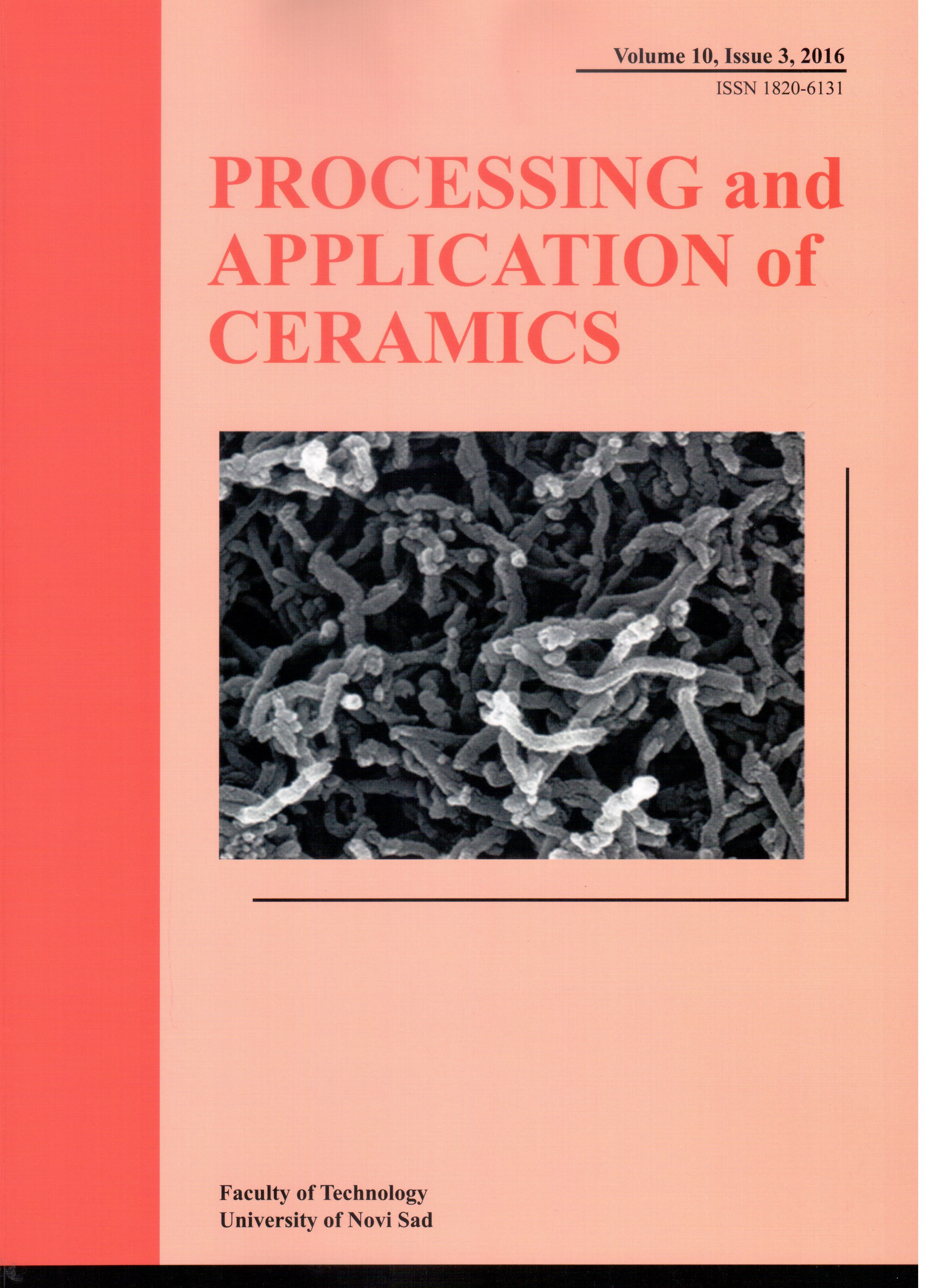 Cover of Serbian scientific journals Processing and Application of Ceramics publish by Faculty of Technology University of Novi Sad, Serbia, 2016.